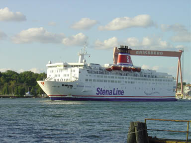 Stena Danica, Älvsborgsbron-Eriksberg, Göteborg Foto:sv:Användare:Mangan2002 Information about Stena Danica may be found at IMO 7907245. A ship can change name and flag state through time, but the IMO number remains the same through the hull's entire lifetime. As a result, it can be useful to identify a ship by using the IMO number.